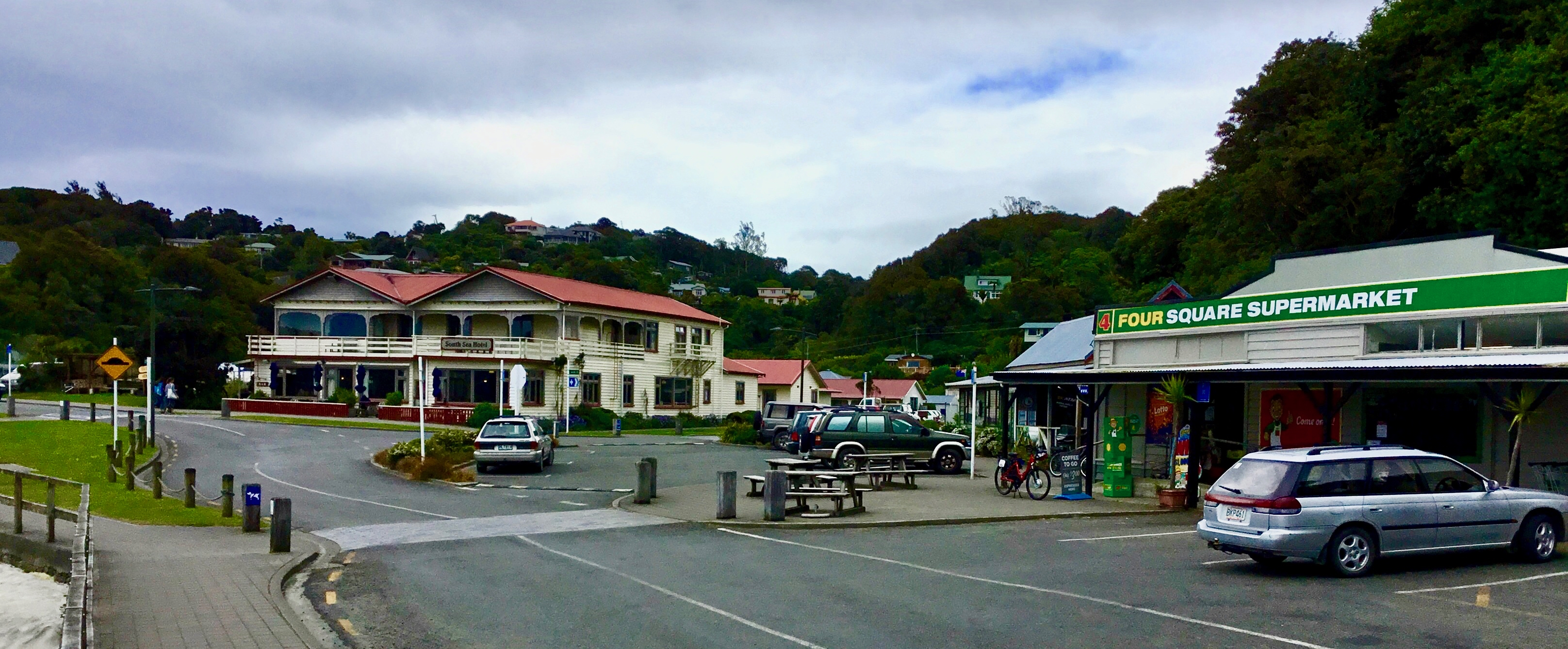 Elgin Road Oban, Stewart Island, New Zealand, January 2020. South Sea hotel and Four Square store visible